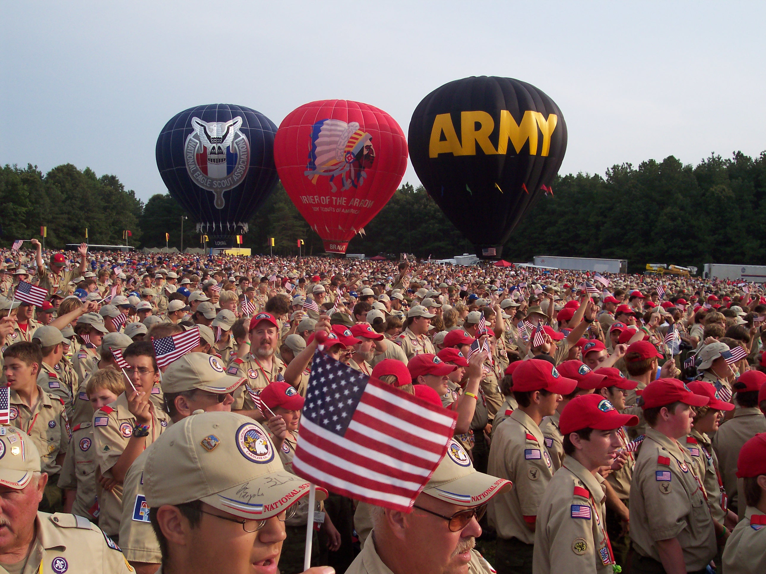 Fort A.P. Hill (July 31, 2005)- Three Hot air ballons at the 2005 National Scout Jamboree Arena Show, attended by over 30,000 Boy Scouts.